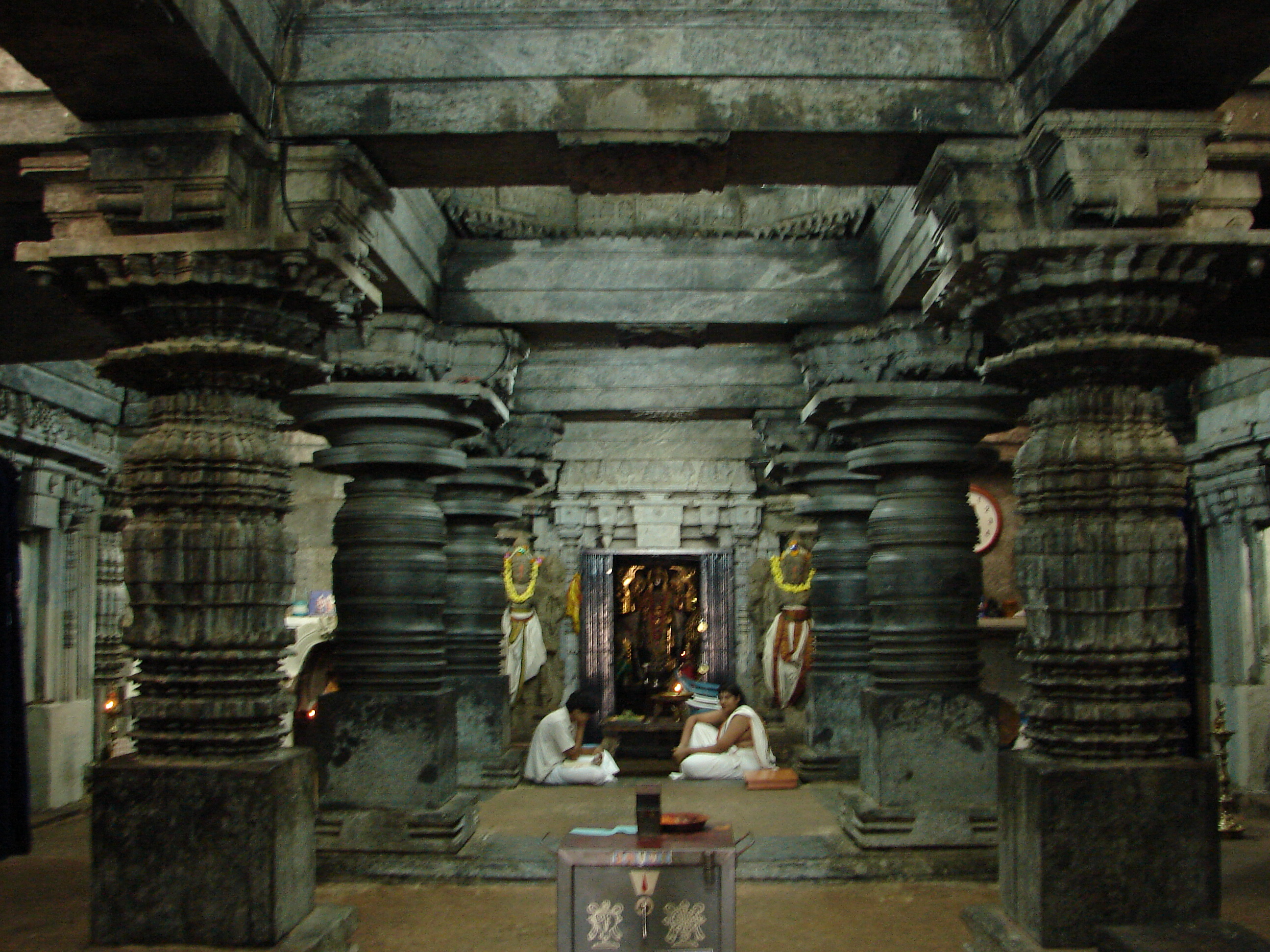 This photograph was taken by me at the Saumyakeshava temple at Nagamangala, Mandya district, Karnataka state, India. The temple is a 12th century Hoysala empire construction and exhibits Hoysala nagara features. Also seen are the Hindu priest and his disciple